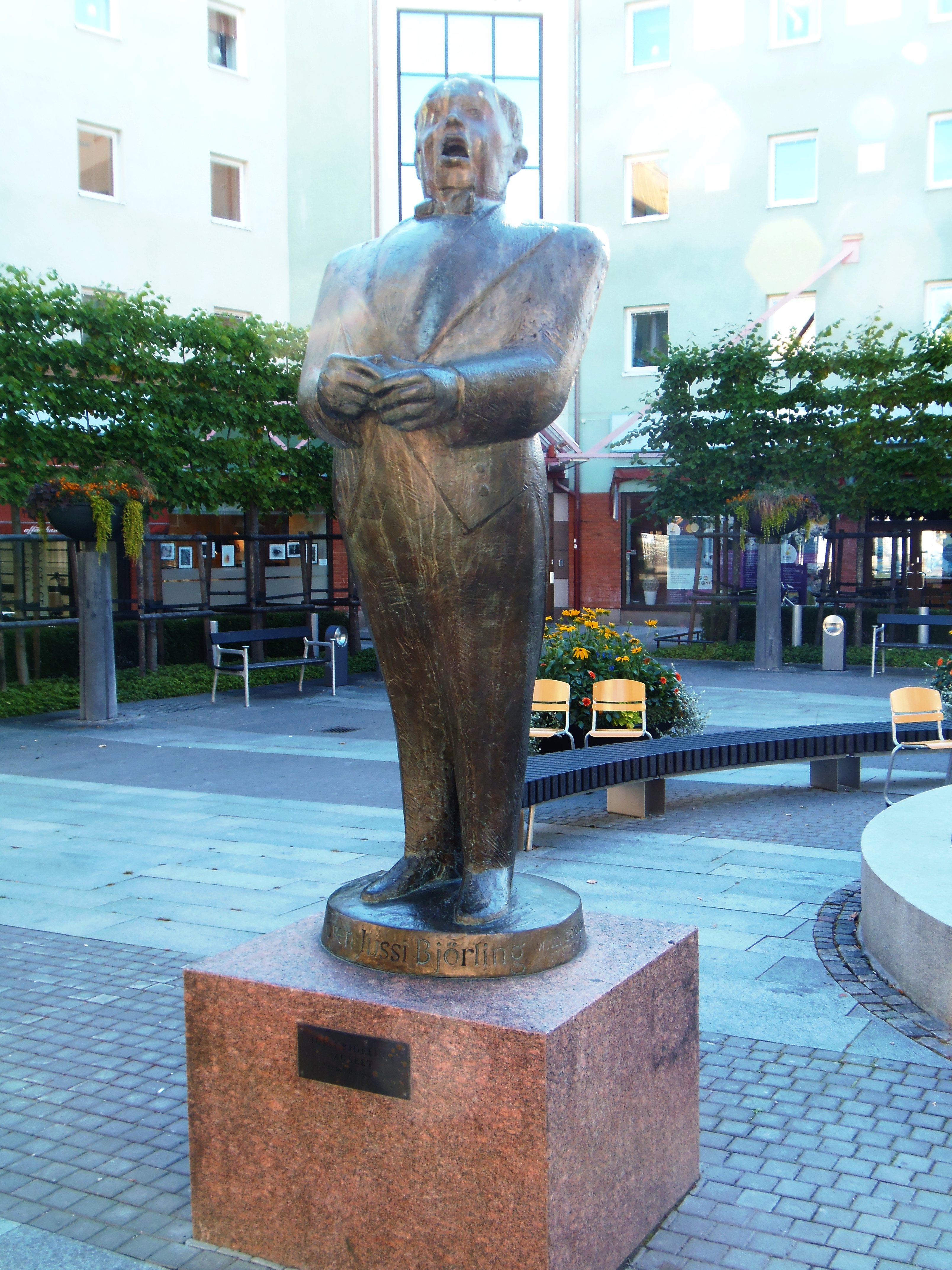 The Jussi Björling statue, on the square named after him in Borlänge, Dalarna, Sverige.